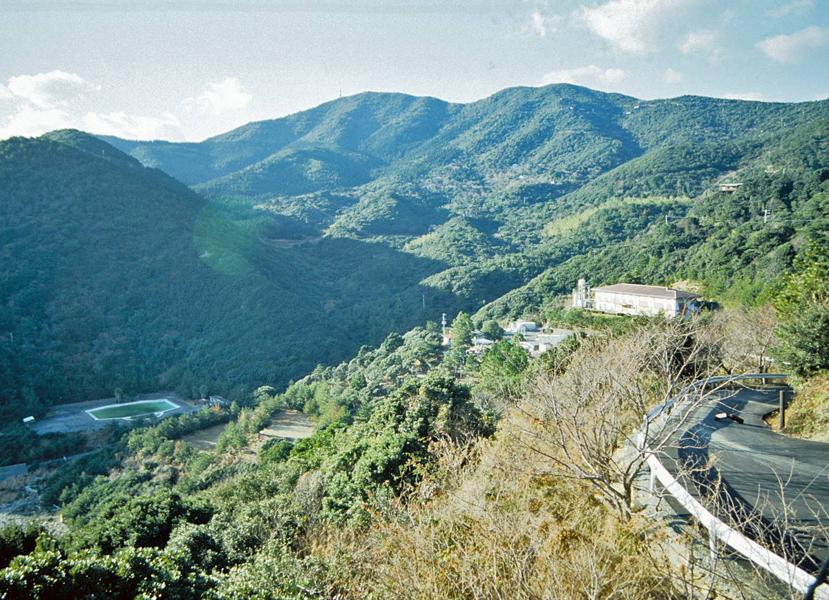 Mount Myojin (Myojin-yama) seen from the ESE in Izari, Minami, Tokushima Prefecture, Japan.